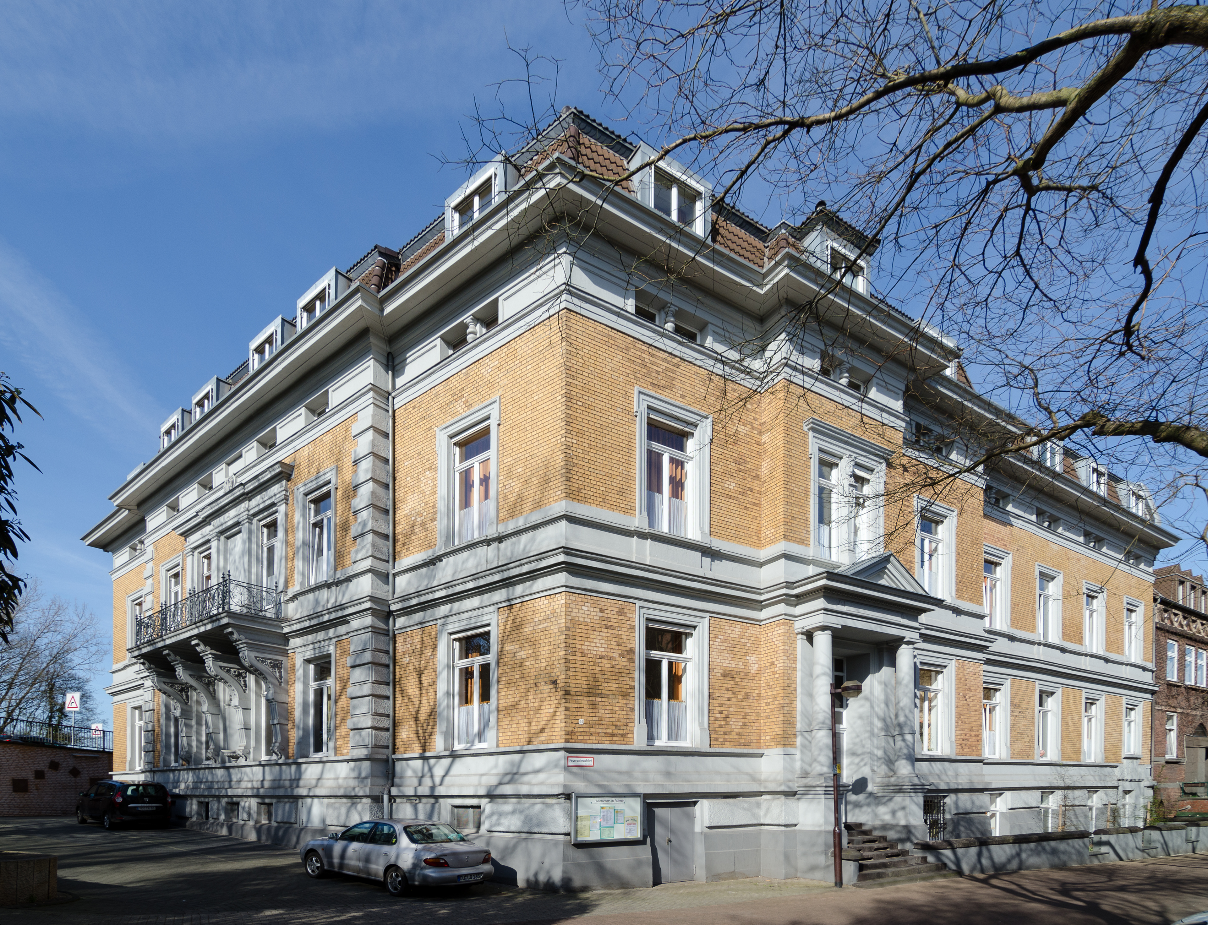 Duisburg (North Rhine-Westphalia, Germany) – borough Homberg/Ruhrort/Baerl, district Ruhrort – former royal administrative district office